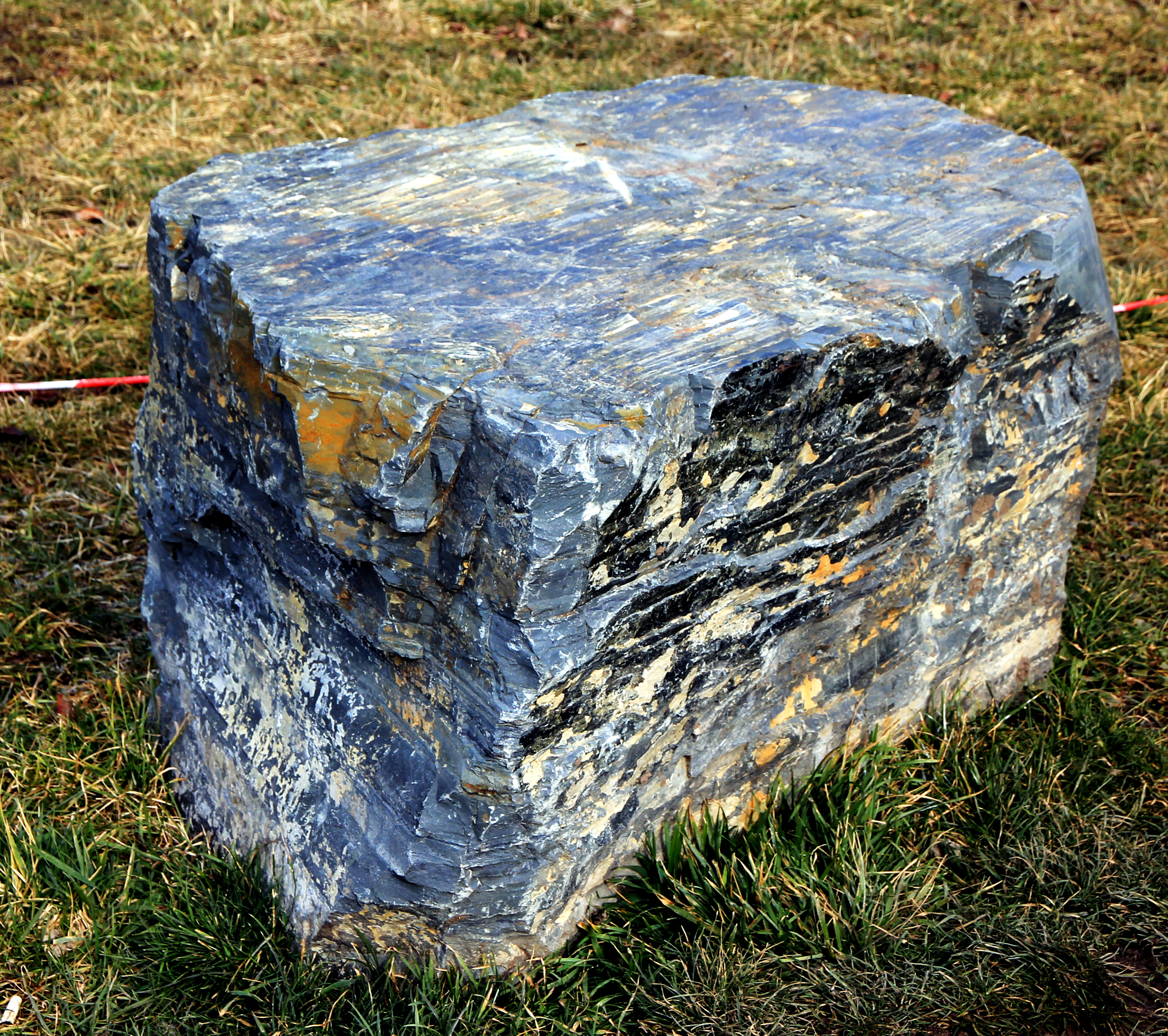 The rock tuff from quarry near of the Czech town Zbraslav exhibited in small geopark “Geologická zahrada” in Dolní Počernice, Prague, Czech Republic